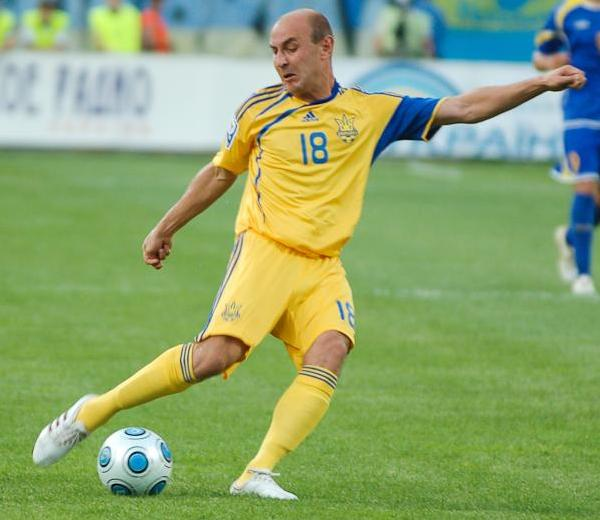 Serhiy Naazarenko, midfielder for FC Dnipro Dnipropetrovsk